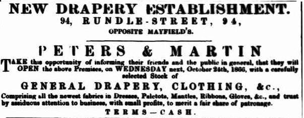 Peters & Martin, first advertisement, Rundle Street, Adelaide (later John Martins & Co.)